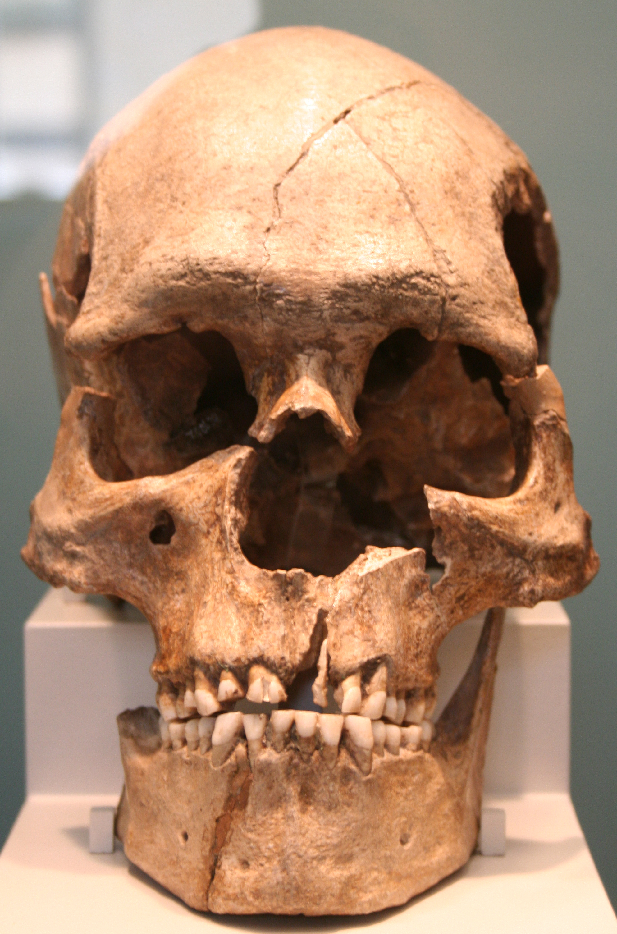 Cranium of Homo Sapiens. Found at Combe Capelle. Dated ca. 7608-7528 BC. Museum für Vor- und Frühgeschichte (Museum of prehistory and early history), Berlin.